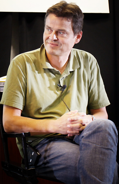 Martin Odersky at LinkedIn Tech Talk speaking on SCALA June 5, 2009